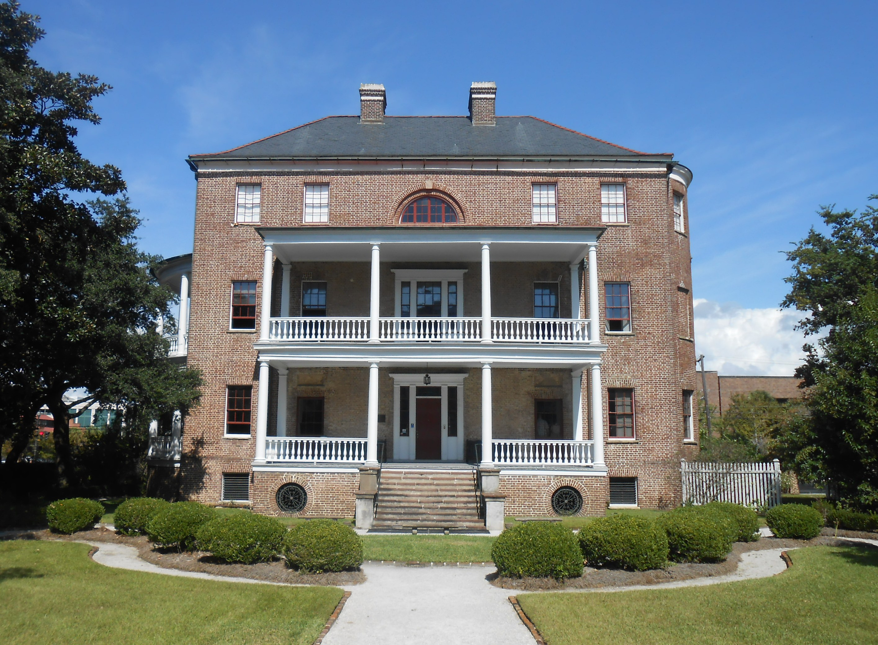 The Joseph Manigault House in Charleston, South Carolina has a two-story porch on its south façade overlooking a garden.